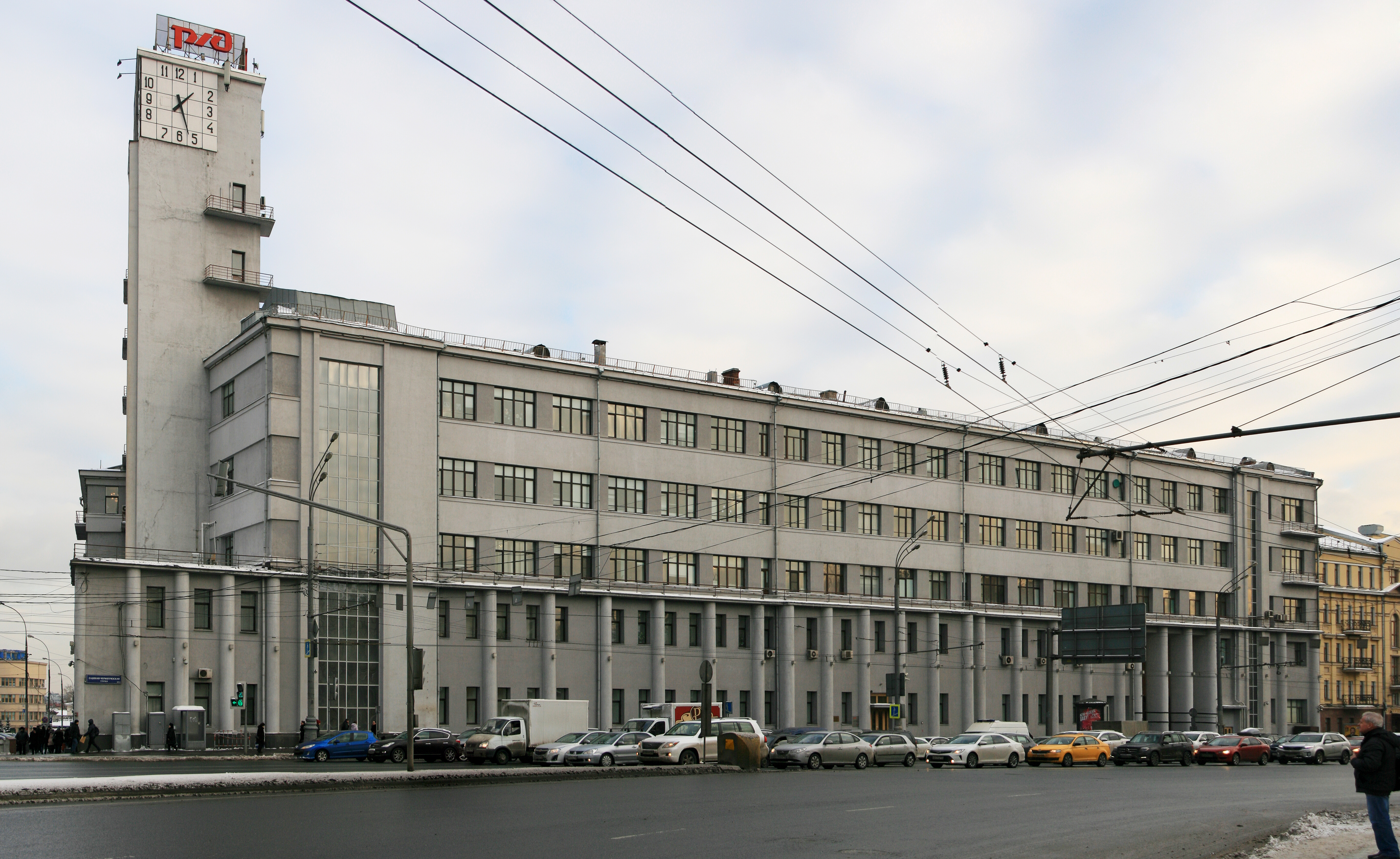 Commissariat of Railways, Moscow